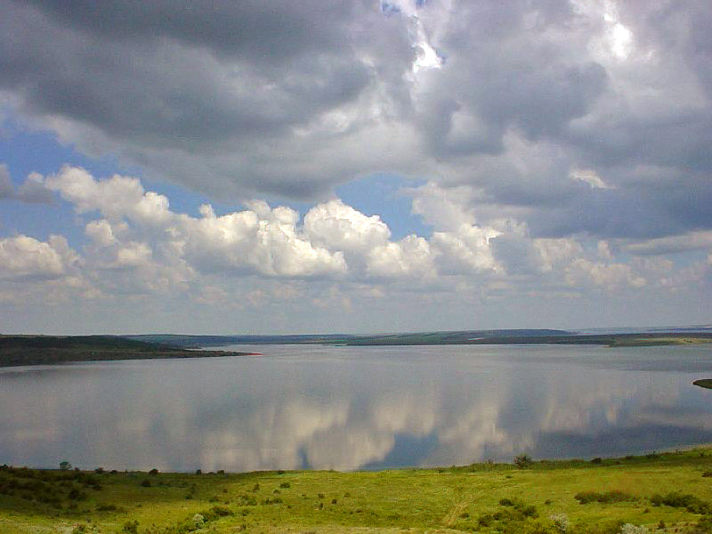 A view of Tylihulsky liman from Kalynivka village; Kominternivskyi Raion, Odessa Oblast, Ukraine